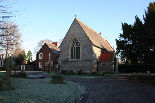 Roman Catholic church of St Helen, Oldcotes, Nottinghamshire, seen from the southwest